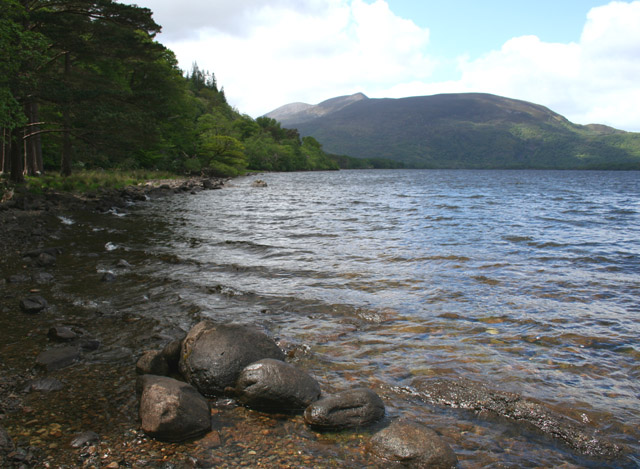 Muckross Lake, Killarney National Park The southern shore of Muckross Lake (Loch Mhucrois) at this point is a mixture of pebbles, boulders and rocky outcrops backed by mixed woodland. The N71 trunk road descends to run near the shore in the trees just west of here. The Purple (An Sliabh Corcra) and Shehy Mountains are visible in the distance